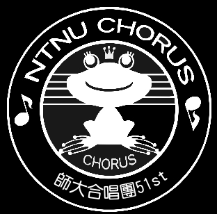 NTNU Chorus 51st LOGO